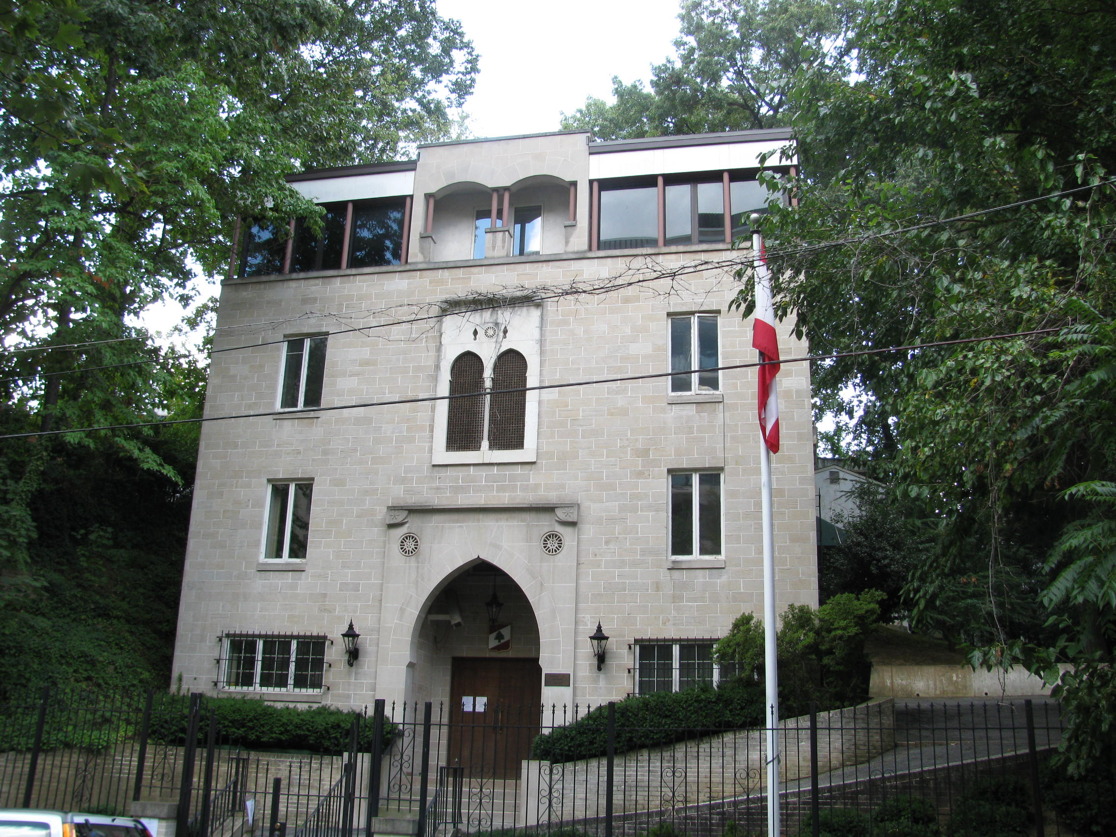 The Embassy of Lebanon in Washington, D.C. is the Republic of Lebanon's diplomatic mission to the United States. It is located at 2560 28th Street, Northwest, Washington, D.C., in the Woodley Park neighborhood